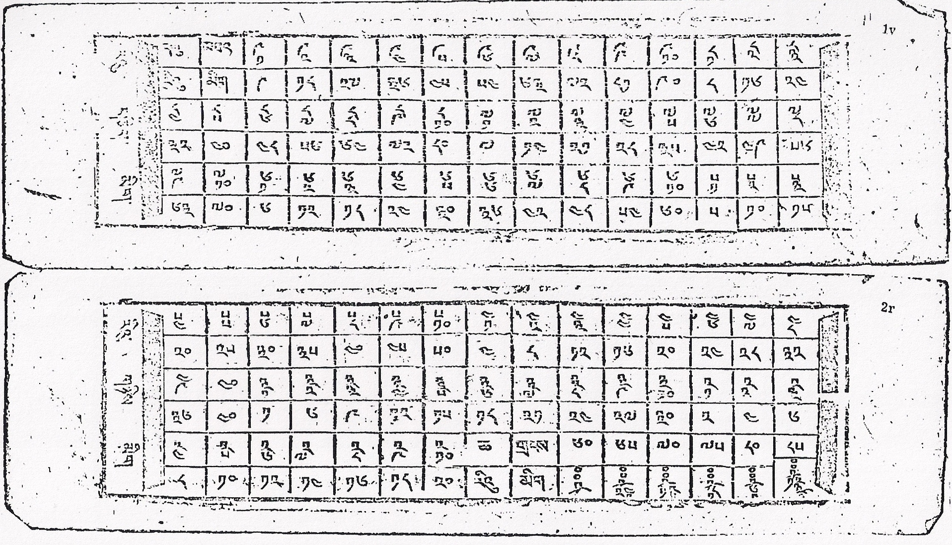 Tibetan multiplikation table (dgu mtha´ri´u mig) from a Tibetan blockprint of the 17th century